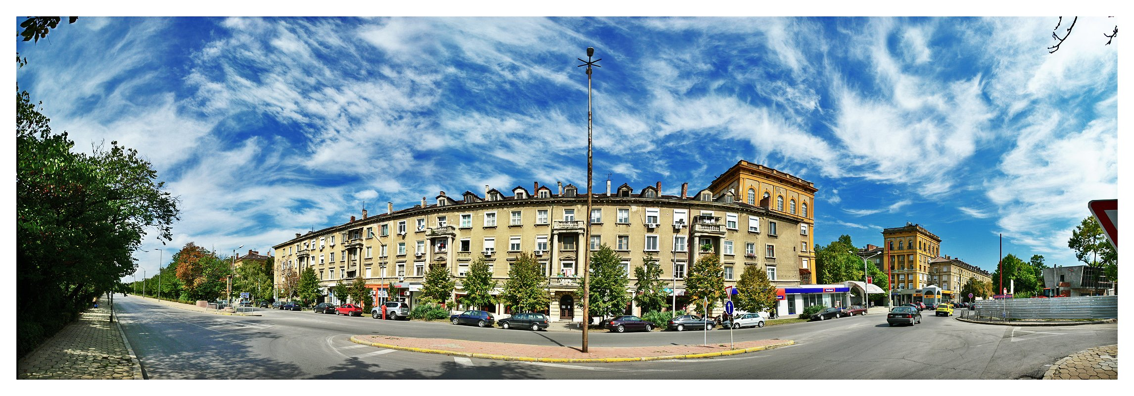 D.Blagoev blvd. in Dimitrovgrad